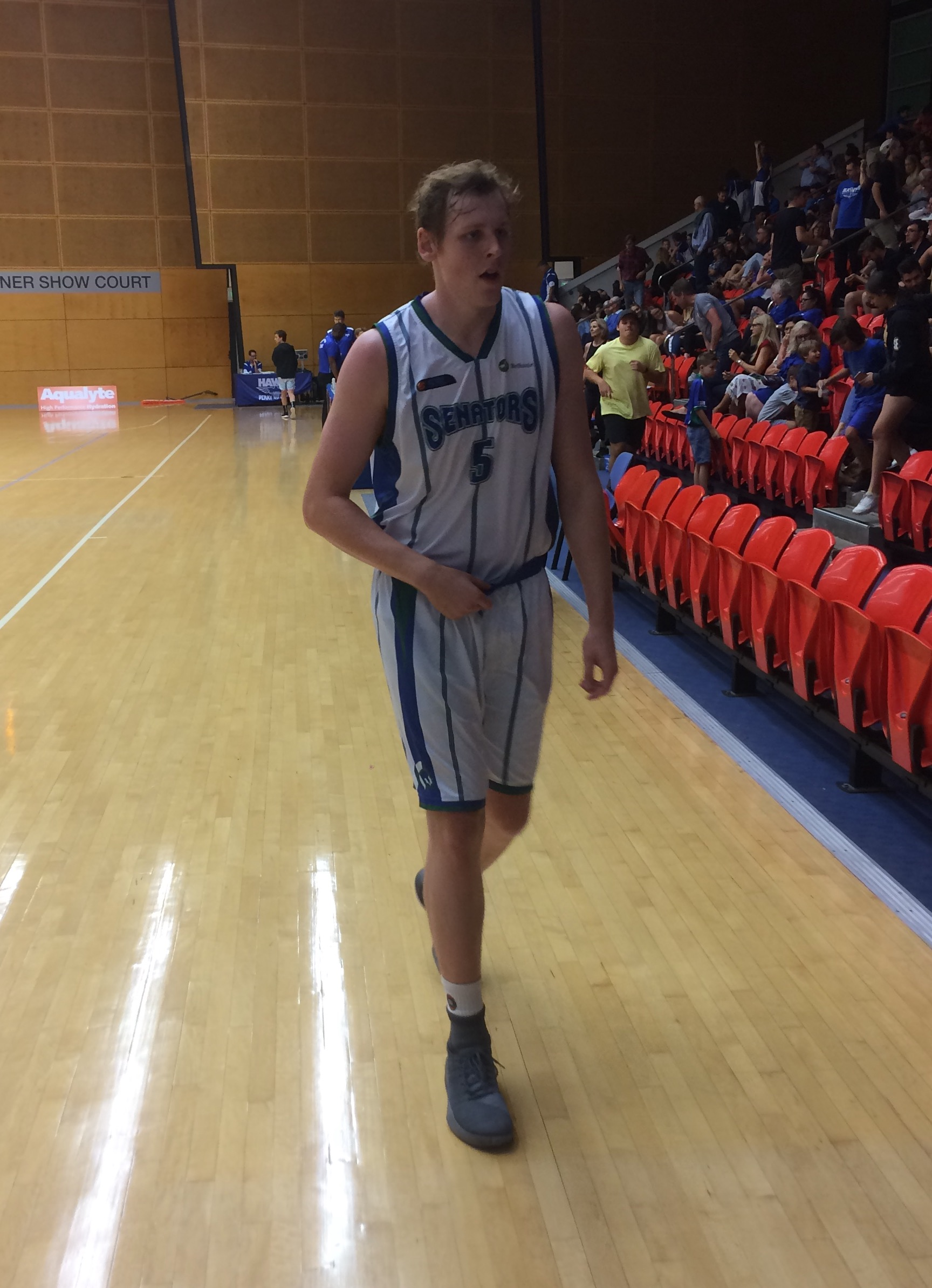 Rhys Vague with the Stirling Senators